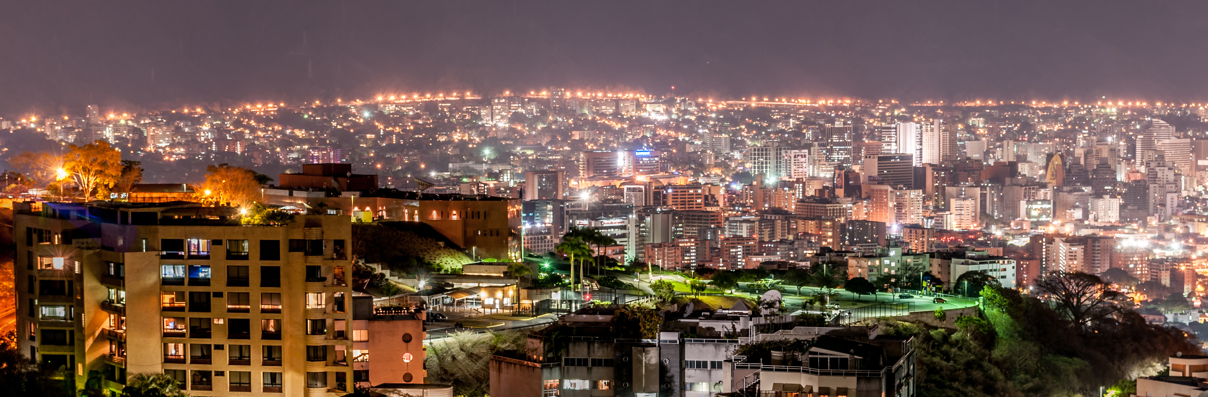 Panoramic view of Caracas night